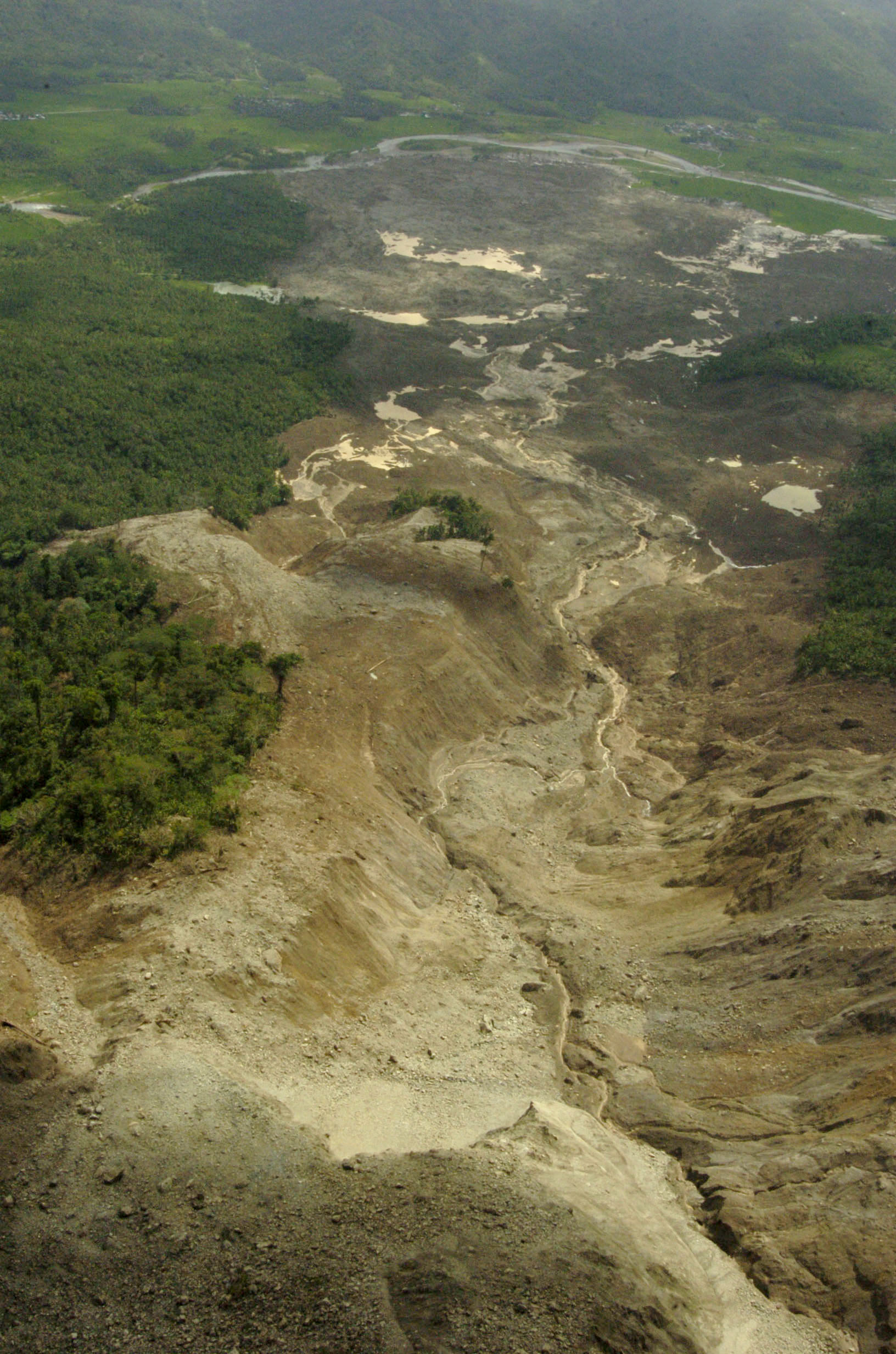 060219-N-5067K-113 Saint Bernard, Republic of the Philippines (Feb. 19, 2006) - Aerial view of the Feb. 17 landslide shot from a CH-46E Sea Knight assigned to the Flying Tigers of Marine Medium Helicopter Squadron 262 (HMM-262), during an aerial assessment of the area. HMM-262 is embarked aboard the amphibious assault ship USS Essex (LHD 2). Essex along with the dock landing ship USS Harpers Ferry (LSD 49) are on station off the Philippine coast rendering relief and assistance to the victims of the landslide. Both are part of the Forward Deployed Amphibious Ready Group, the Navy’s only forward deployed amphibious force, homeported in Sasebo, Japan. U.S. Navy Photo by Photographer's Mate 1st Class Michael D. Kennedy (RELEASED)